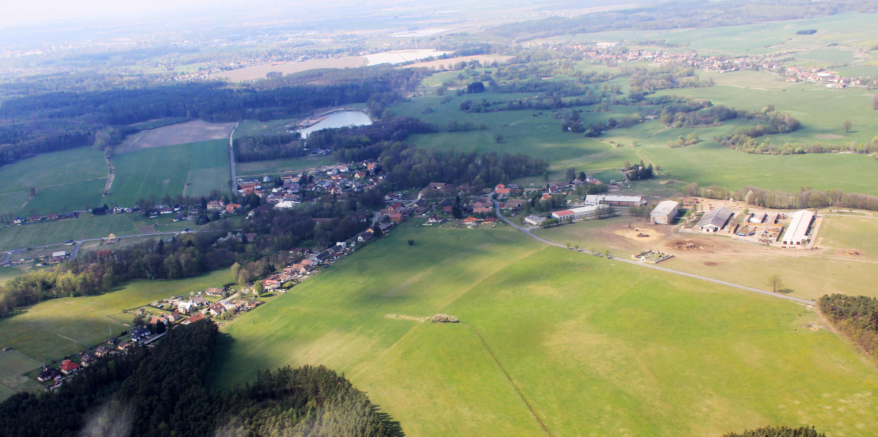 Village Běleč nad Orlicí near of town Třebechovice pod Orebem from air, eastern Bohemia, Czech Republic